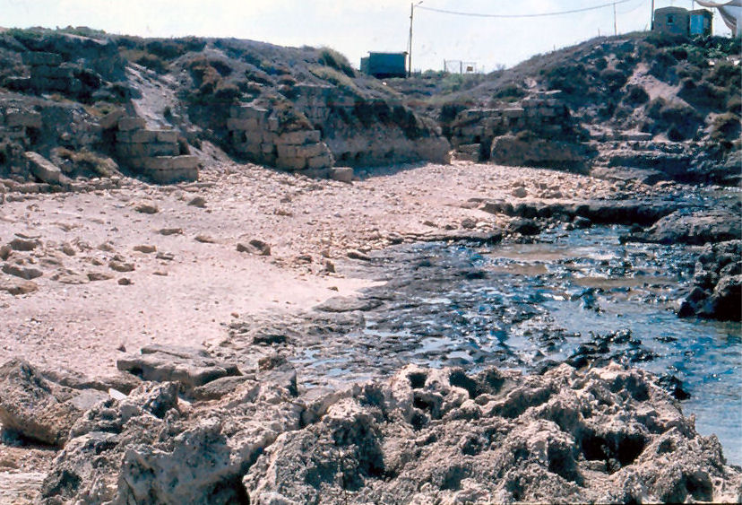 \Eolianite beach Dor Israel